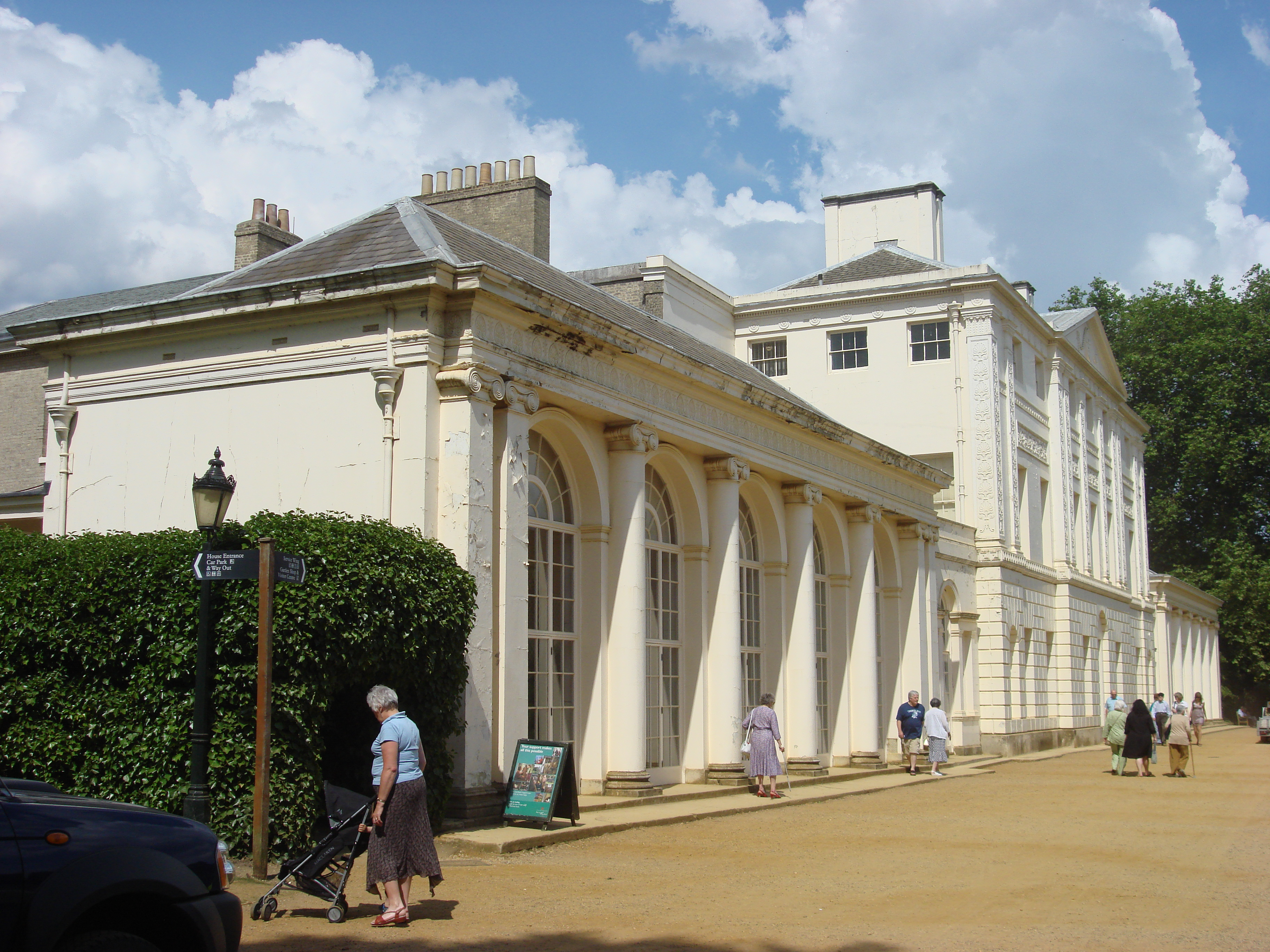 Kenwood House, Hampstead